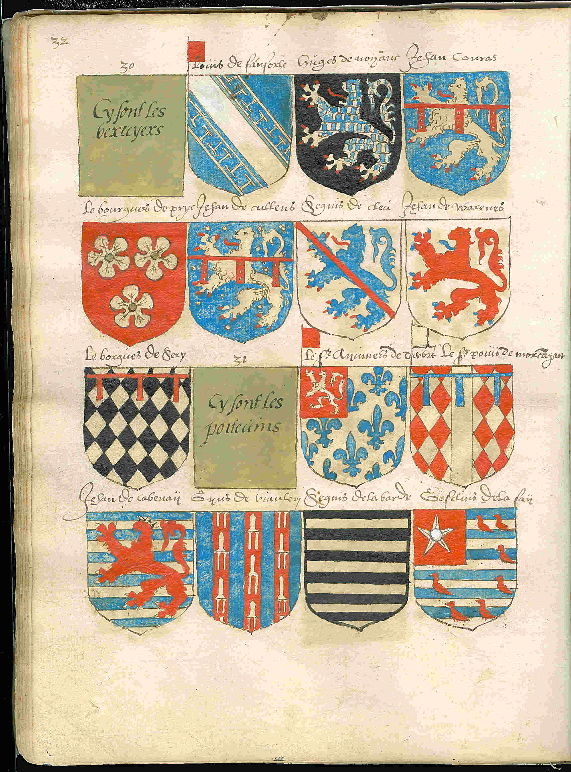 Page 32 from a copy of the Beyeren armorial / Wapenboek Beyeren from ca. 1600. The original Beyeren armorial from 1405 can be viewed at the website of the KB